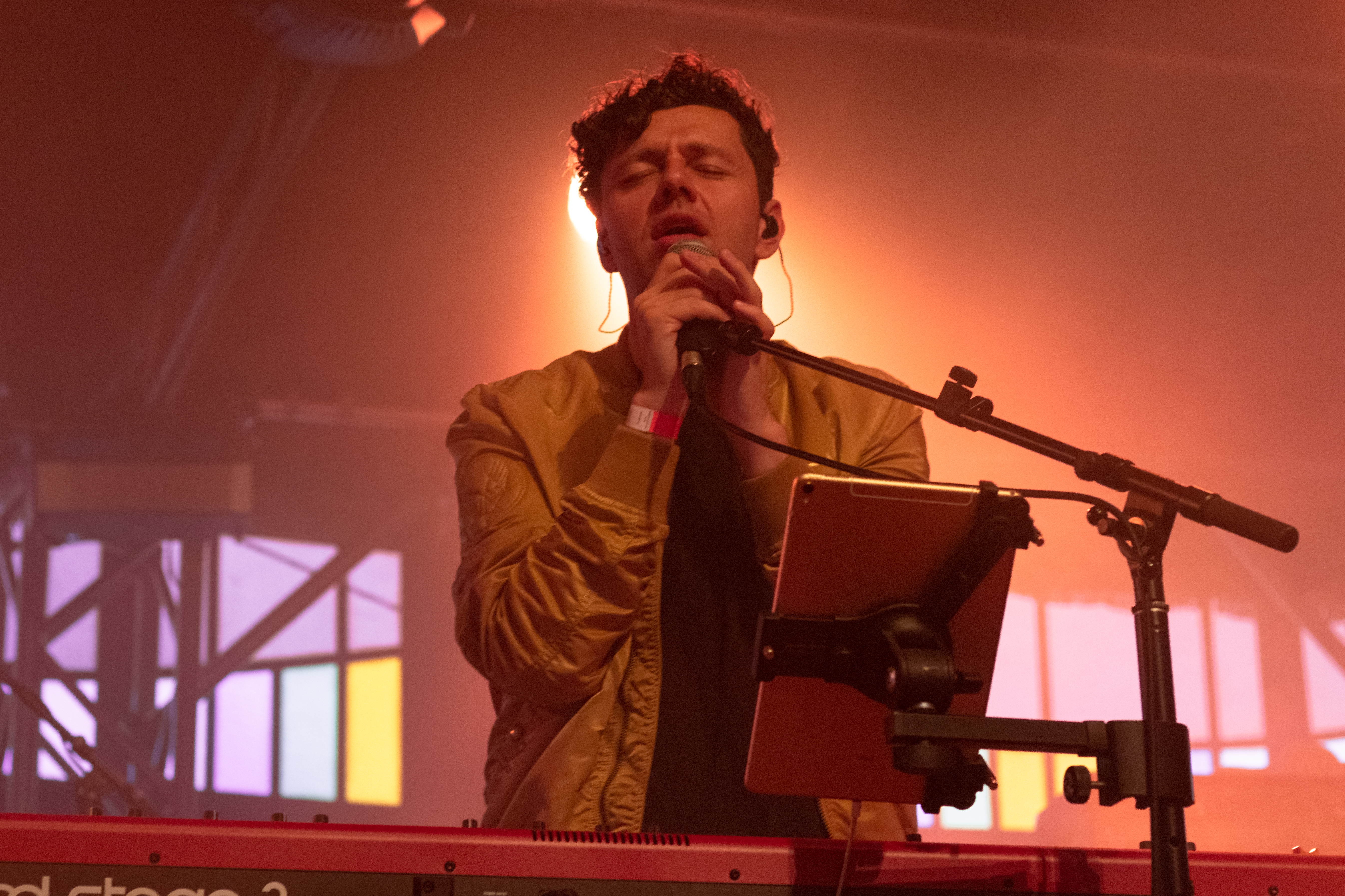 Woods of Birnam in the Spiegeltent at Haldern Pop Festival 2019.